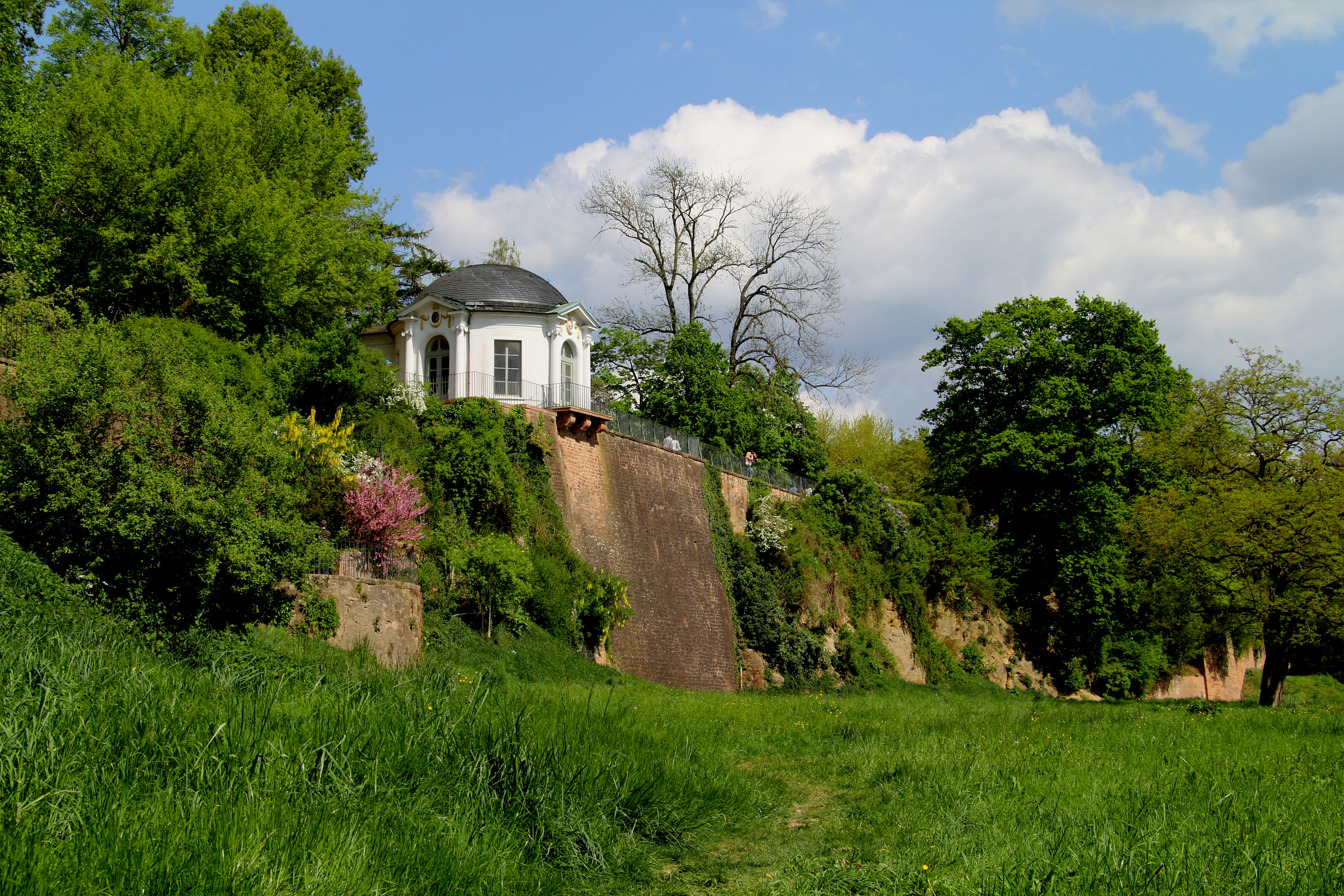 “Breakfast Gazebo” (also called “Breakfast Temple”) in the palace garden of Schloss Johannisburg in Aschaffenburg / Germany, built by Friedrich Karl Joseph von Erthal, archbishop of Mainz and prince elector as well as prince bishop of Worms